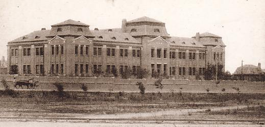 Kankyo-Hoku(Hamgyeongbuk) Provincial Office